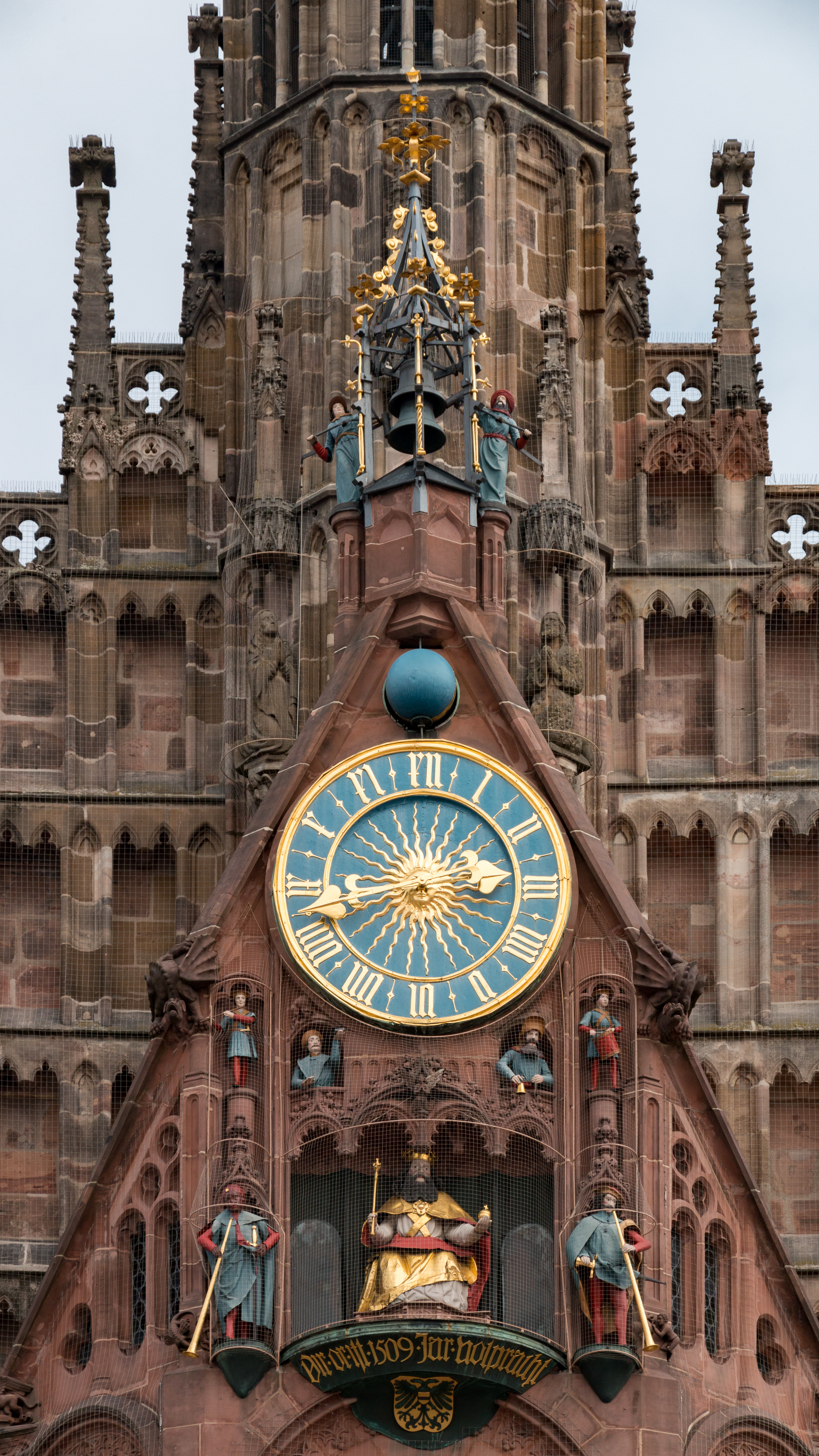 The astronomic clock at the Frauenkirche